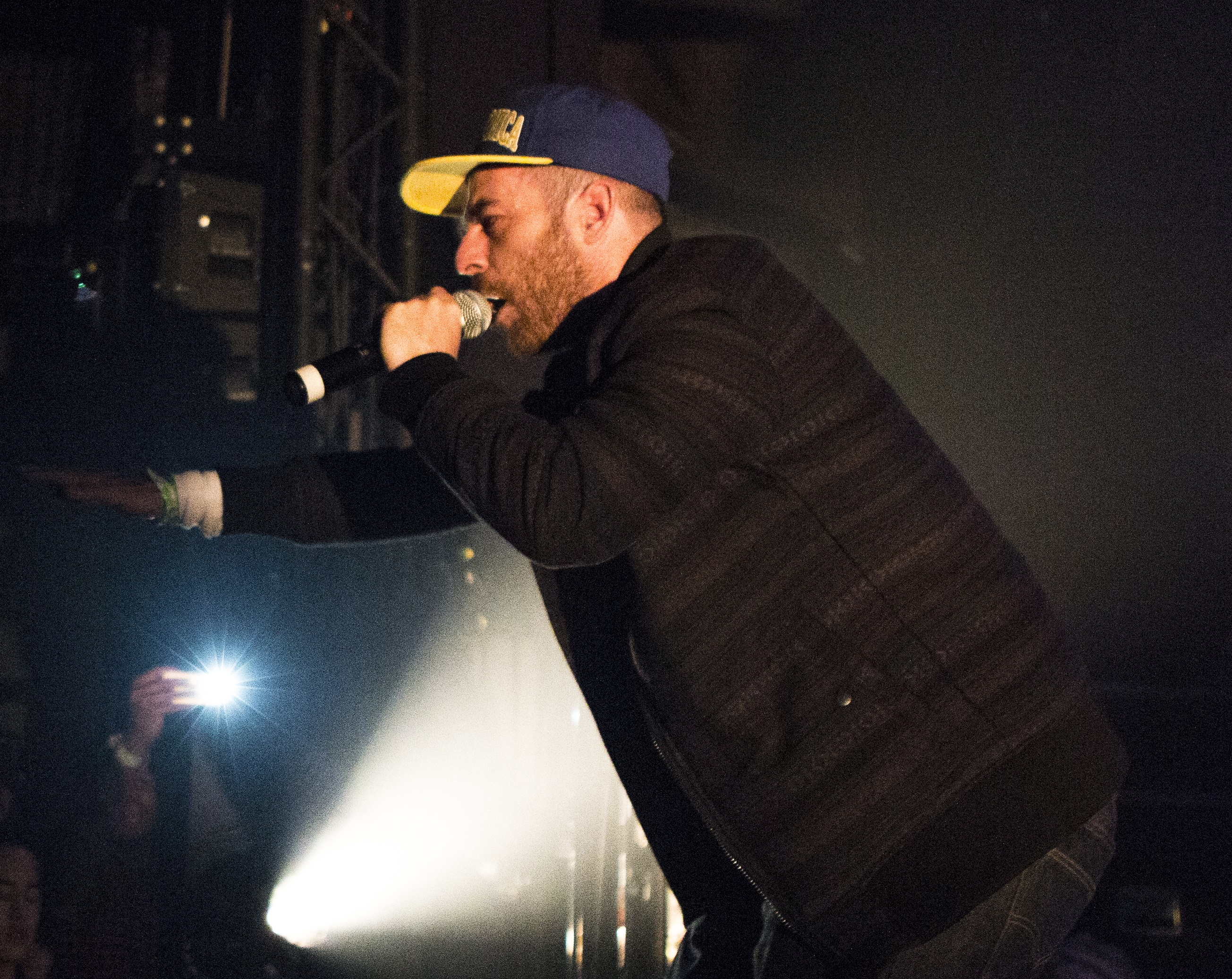 Image of American producer The Alchemist in March 2014